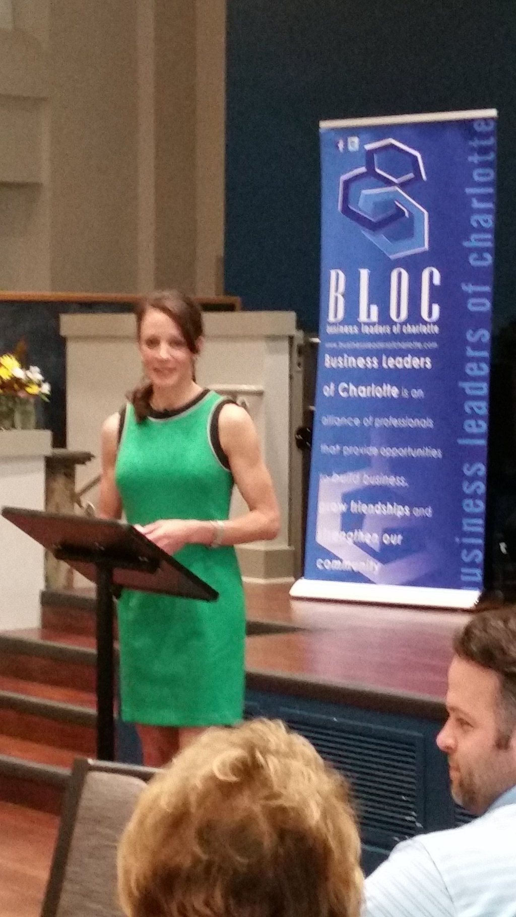 Broadwell speaking to Business Leaders of Charlotte